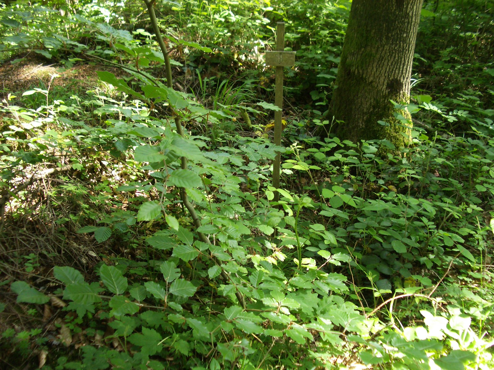 Unterlunkhofen AG, Switzerland, Bärhau: Grabhügel Nr. 38